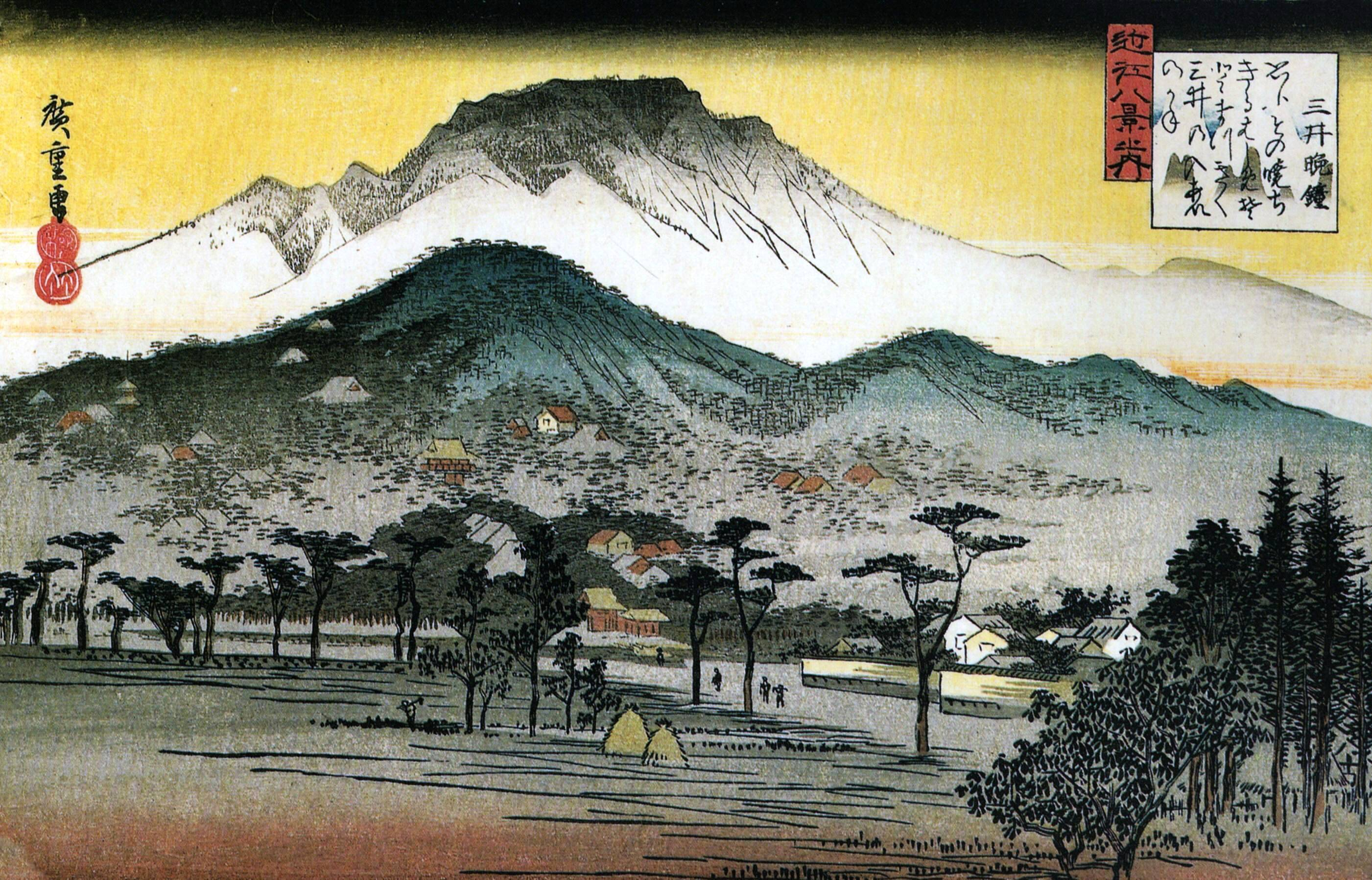 8 Views of Omi - 4. Evening Bell, Mii Temple